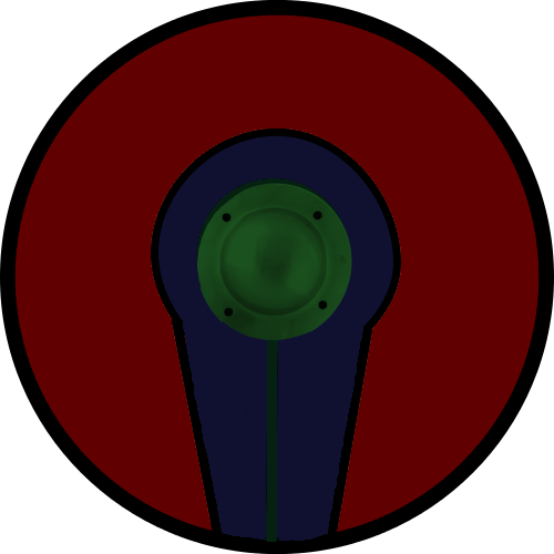 Shield pattern auxilia palatina unit listed in the surviving manuscript copies in the Magister Peditum's infantry roster, called the Batavi matriciaci seniores. This was split into a Batavi seniores and a Mattiaci seniores, since these unit names appear in the appropriate positions under the Magister Peditum's Italian command.